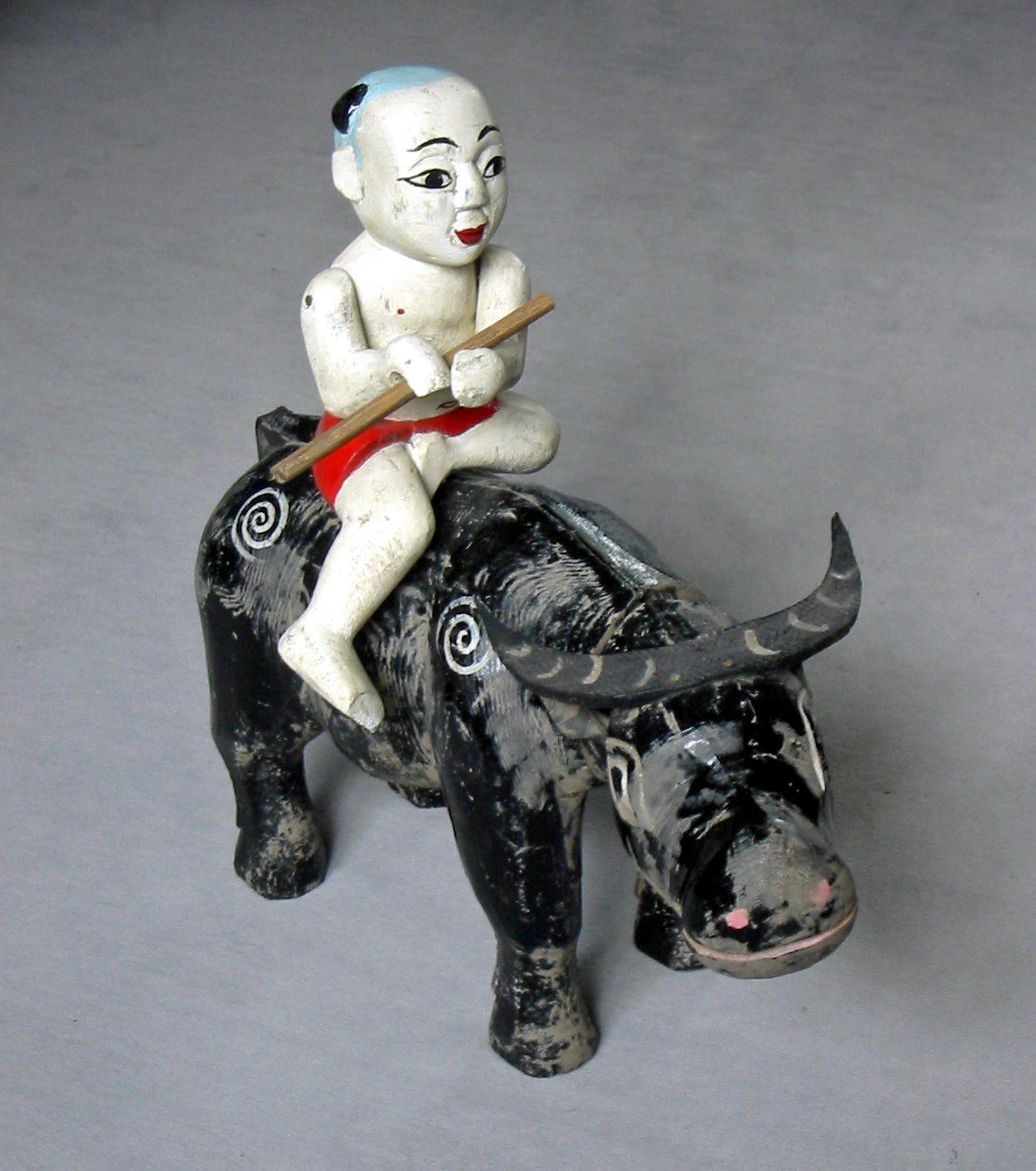 Puppet of the Water Puppet Theatre Than Long in Hanoi, Vietnam, representing the final stage of famous buddhist ox driver parable.